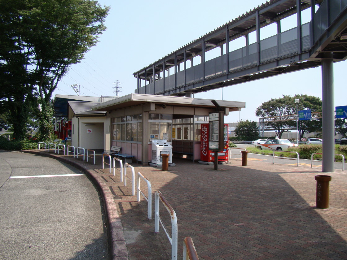 Tomeifuji busstop